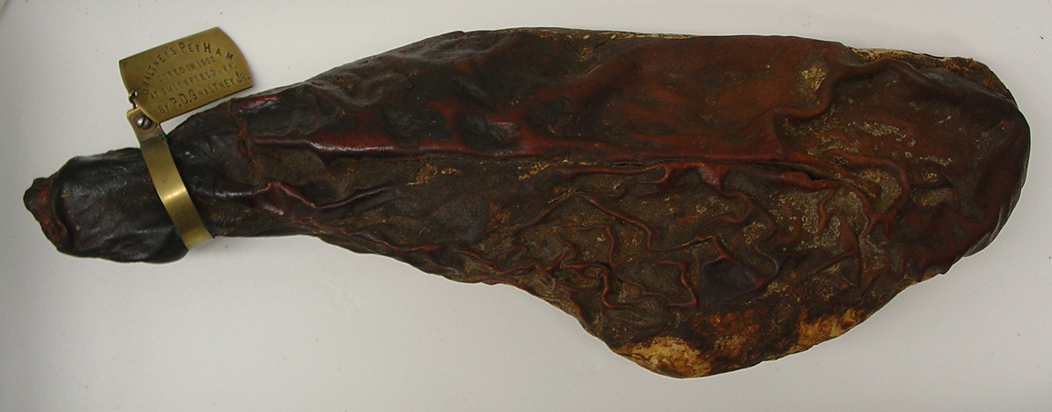 P.D. Gwaltney Jr.'s pet ham, thought to be the world's oldest ham. [1][2] In 1902, this ham was cured by the largest Smithfield ham producer, P.D. Gwaltney Jr. and Company. Gwaltney insured the ham, called it his Pet Ham and used it to demonstrate the special smoking techniques used in the creation of Smithfield ham. This 1902 specimen permanently resides in the Isle of Wight County Museum, Smithfield, Va., and the museum hosts a birthday party for it each July.